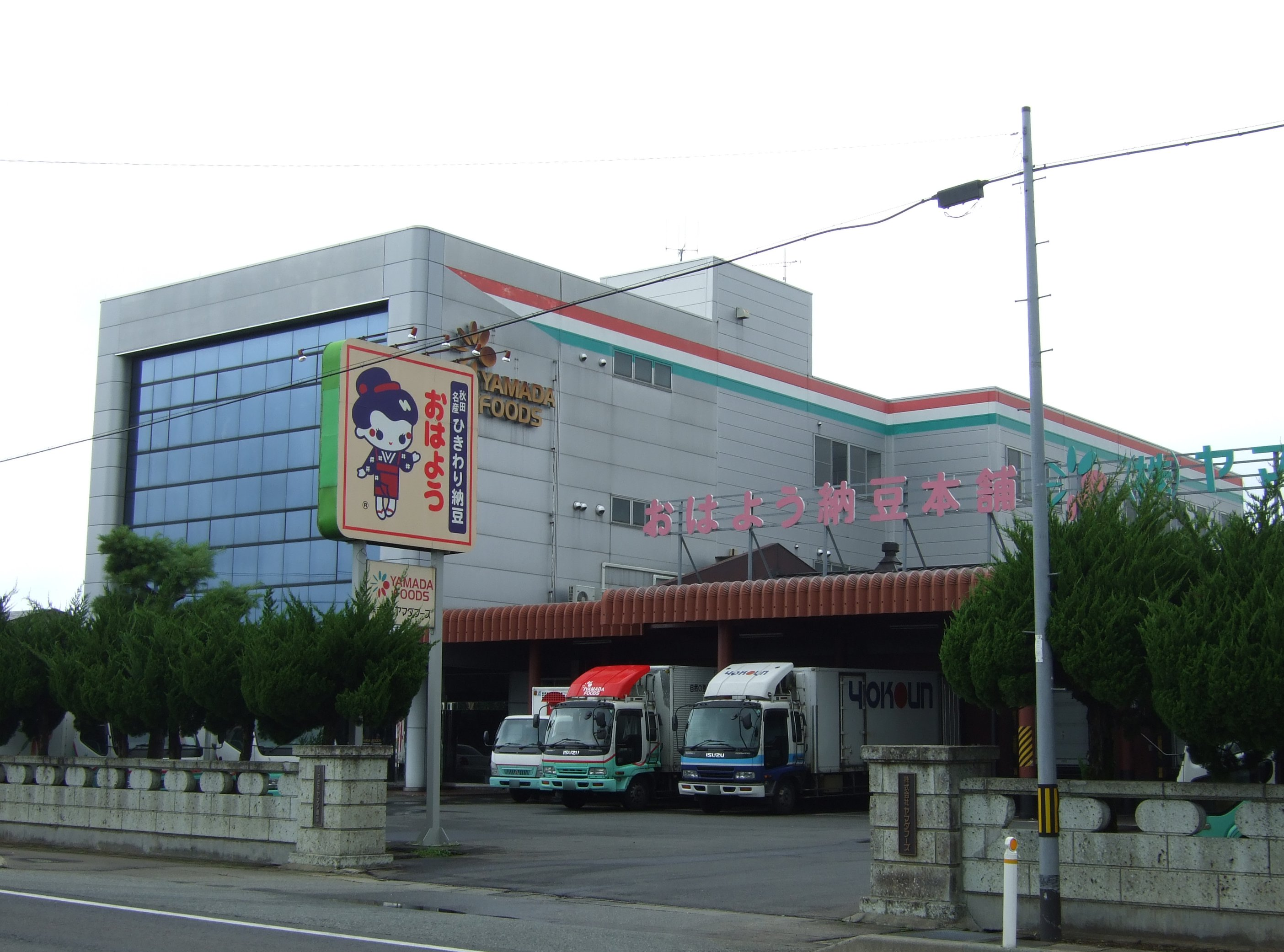 YAMADA FOODS (Nattō maker) head office & factory, in Misato, Senboku, Akita, Japan.